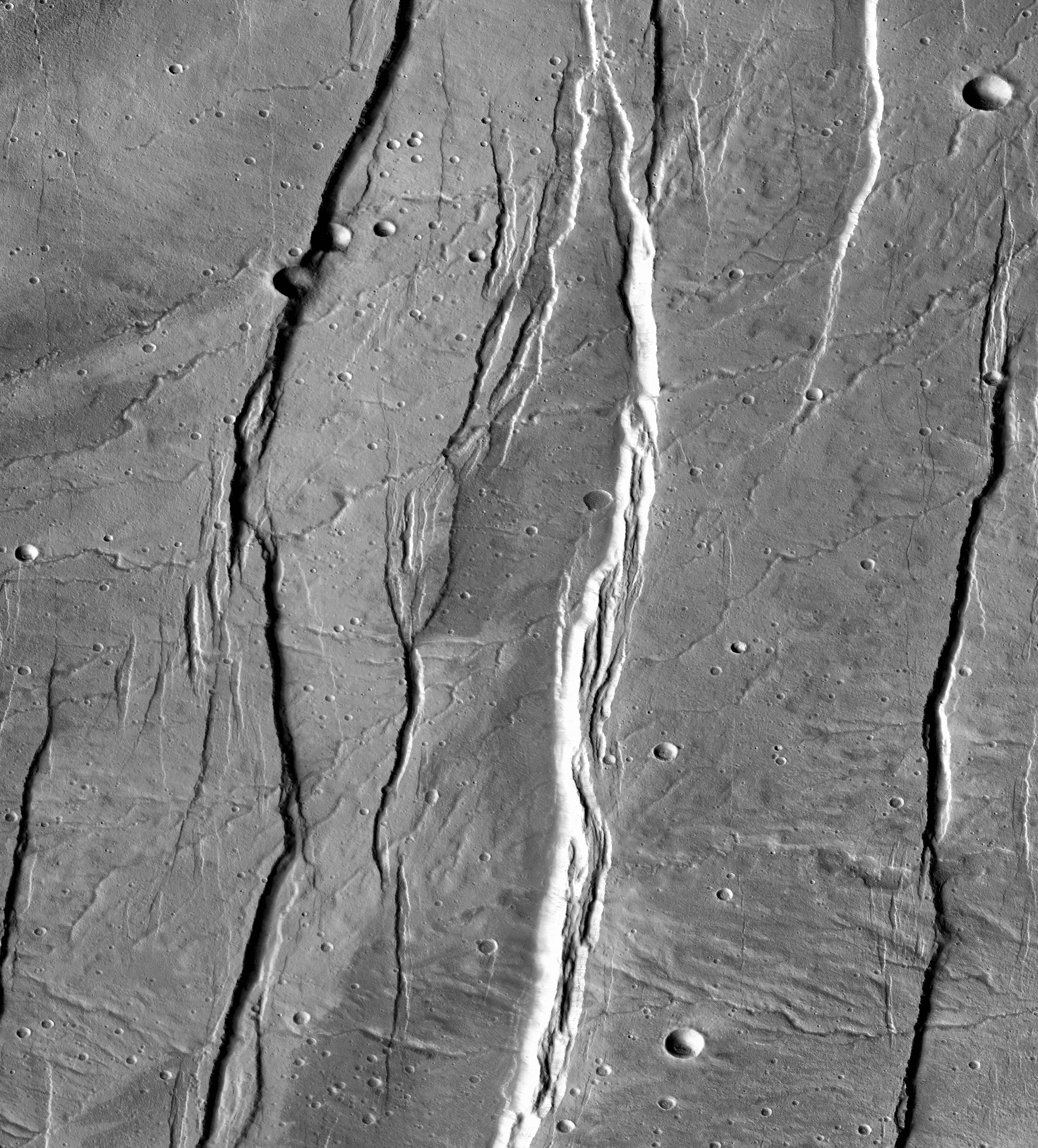 This image shows a small portion of the system of grabens on Mars called Tantalus Fossae. It was taken by the Context Camera aboard the Mars Reconnaissance Orbiter. Image resolution is around 6.08 meters per pixel.